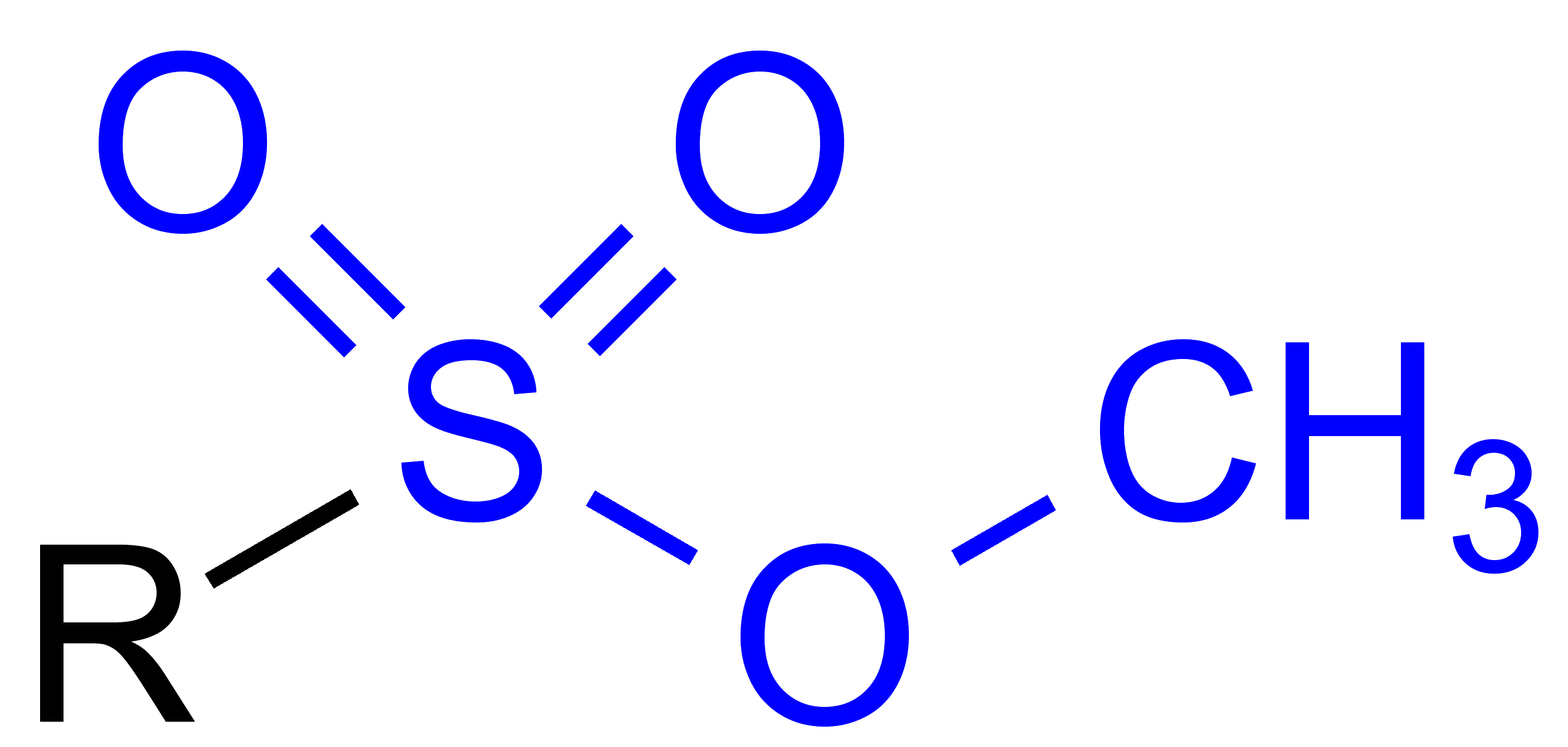 Methylsulfoxylate_General_Structure